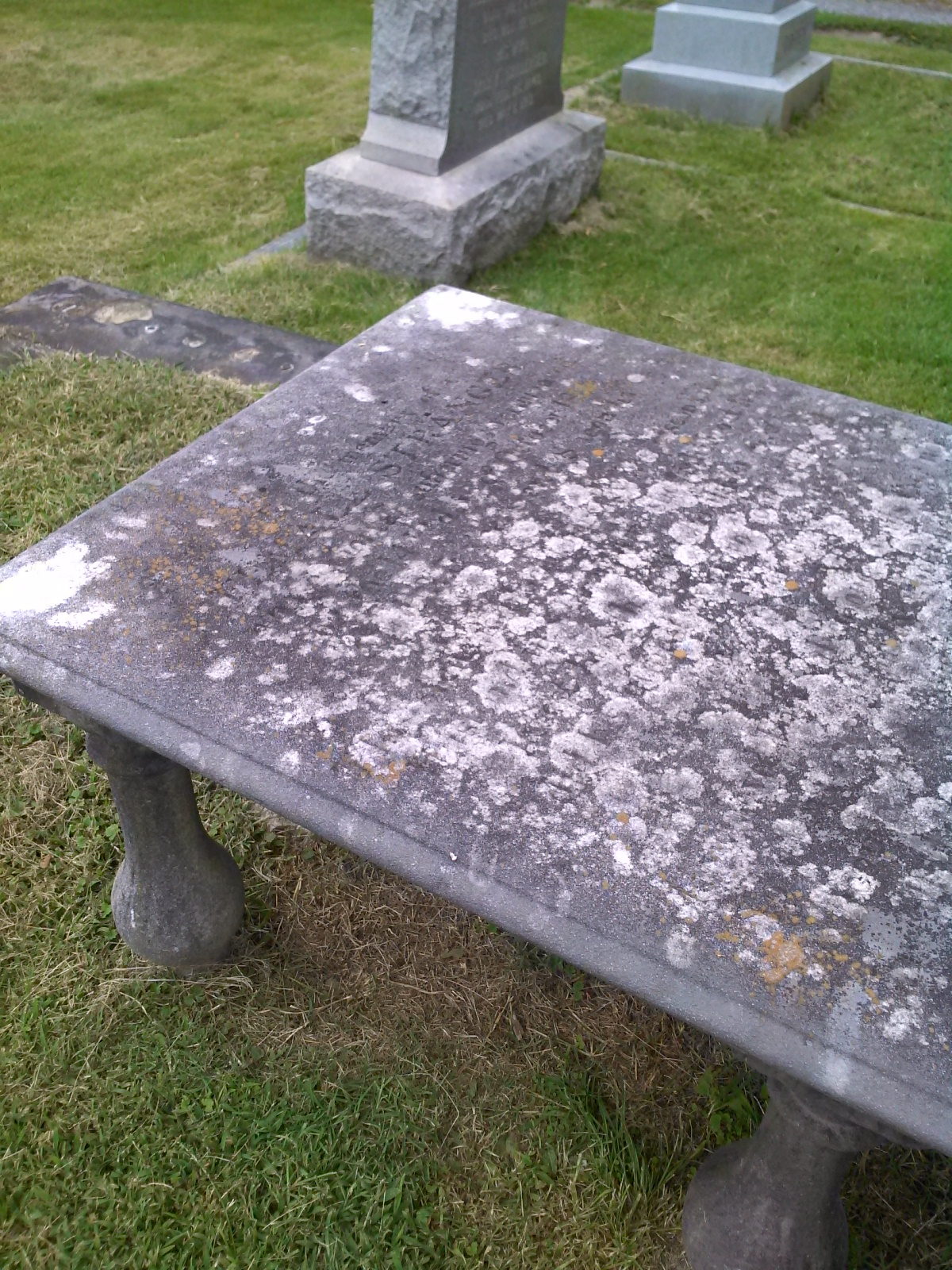 Weatherbeaten state of the tomb of a female stranger in Alexandria, Virginia as of 2017.